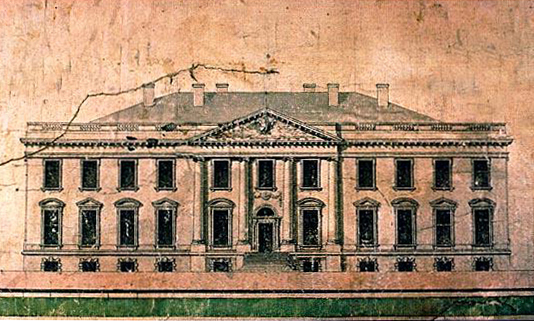 Elevation of the north side of the White House, by James Hoban, c. 1793. Progress drawing after having won the competition for architect of the White House. Collection of the Maryland Historical Society.